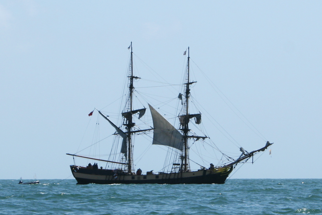 Brick anglais Phoenix